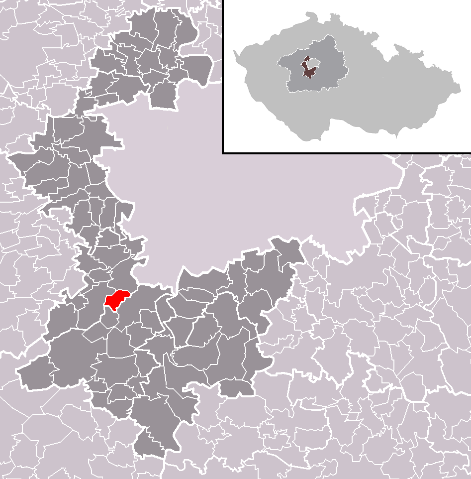 Location of Všenory municipality within Prague-West District and administrative area of Černošice as a Municipality with Extended Competence.